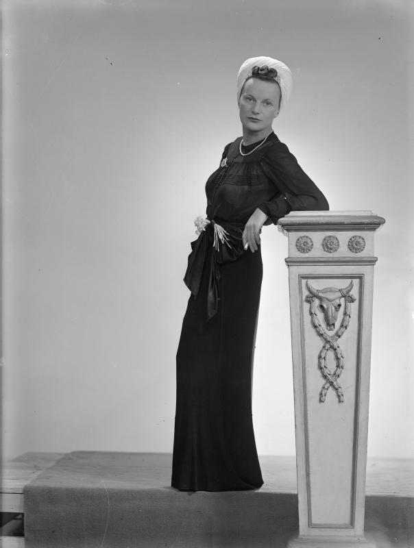 How a British Woman Dresses in Wartime- Utility Clothing in Britain, 1943 This photograph shows a model wearing an outfit which illustrates the way in which old clothes can be re-worked and worn as new. The model, seen here leaning on an ornate plinth, wears a black chiffon blouse made from an old dinner dress, a long black skirt made from another old dinner dress bartered with a friend, and a white turban which can also be worn with various daytime outfits.